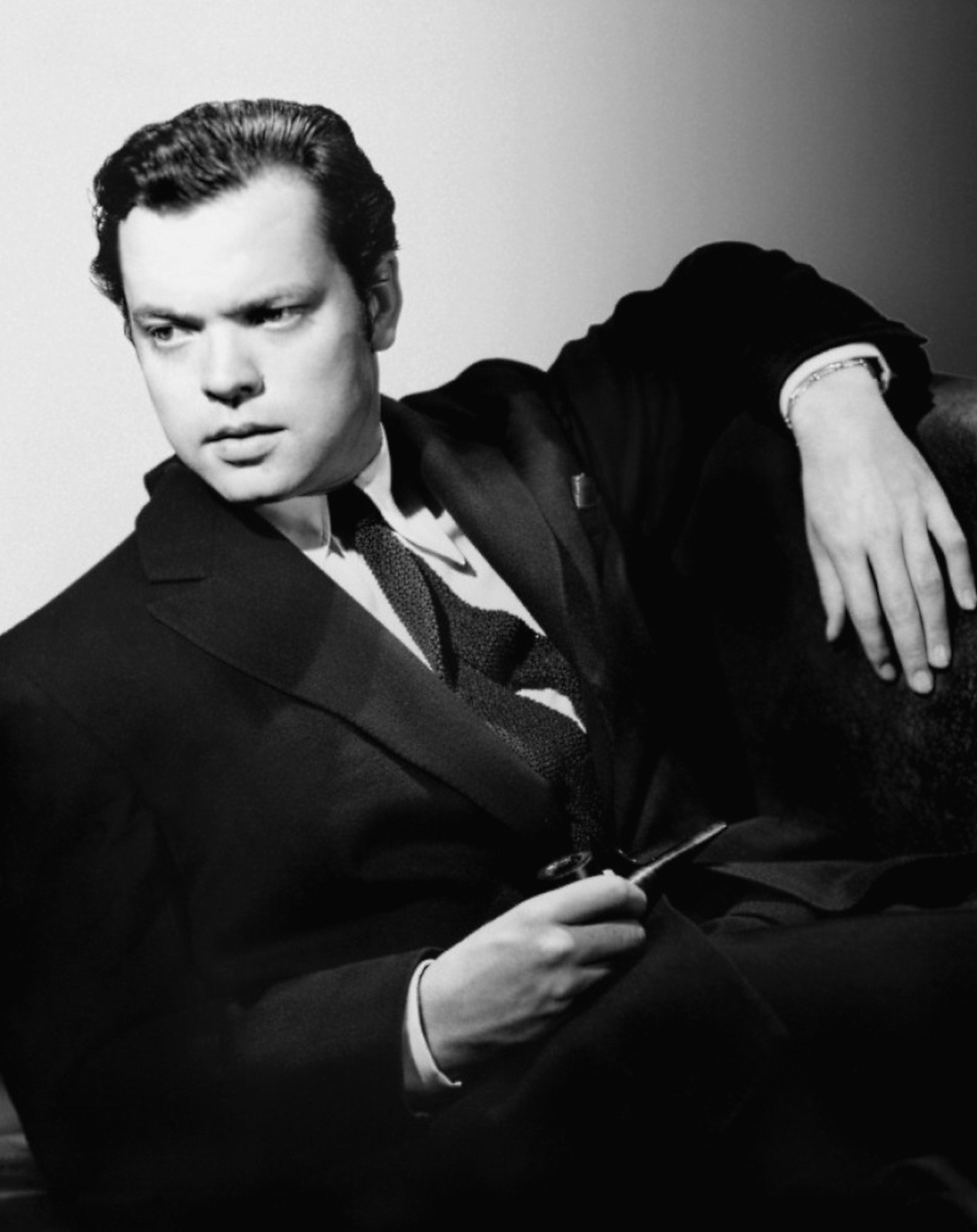 Photograph of Orson Welles, likely to have been taken in 1941